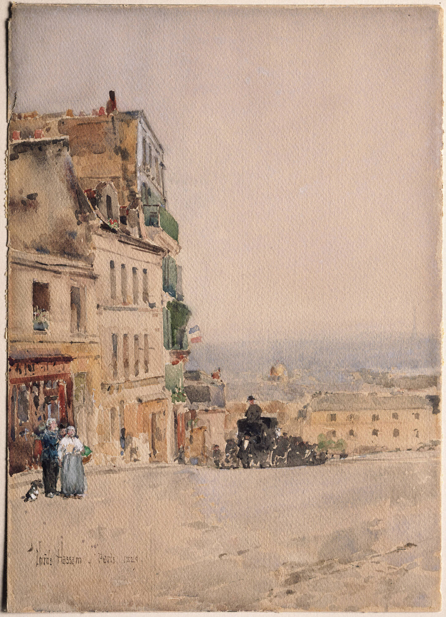 Childe Hassam, American, 1859–1935 View in Montmartre, Paris, 1889 Watercolor and gouache over graphite on cream wove paper 35.3 x 25.3 cm. (13 7/8 x 9 15/16 in.) Gift of Stuart Riddle Stevenson, Class of 1918 x1957-117